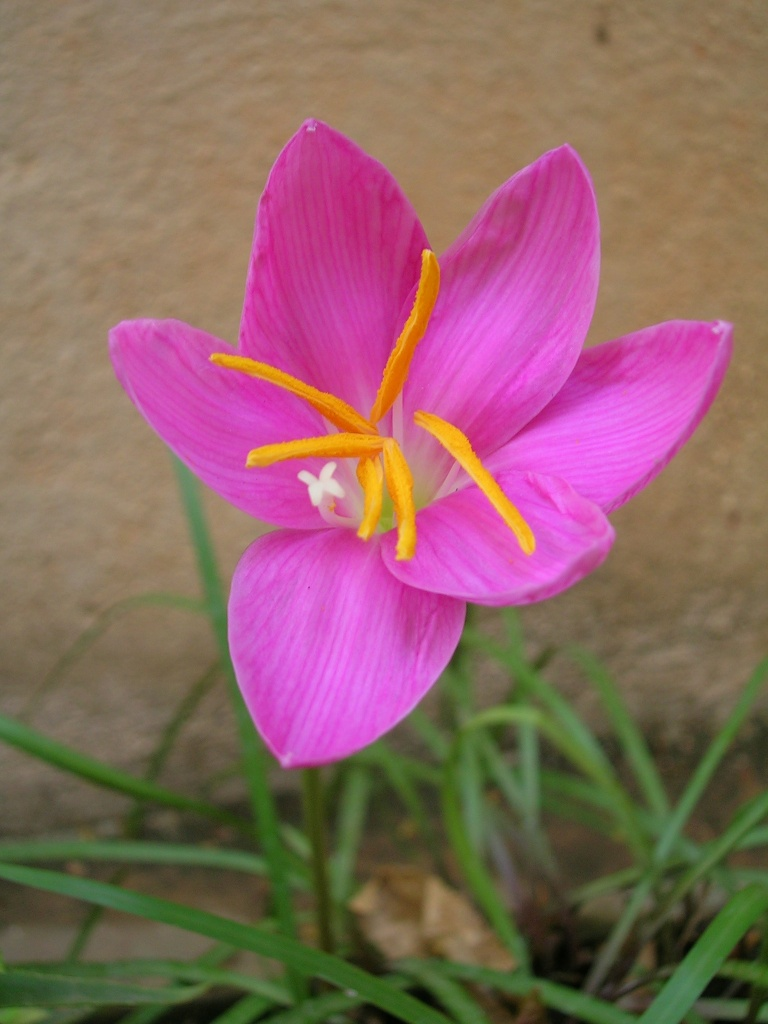 Pink Zephyranthes (plant originally growing in Nandi hills, introduced to garden in Bangalore. Most likely Z. carinata